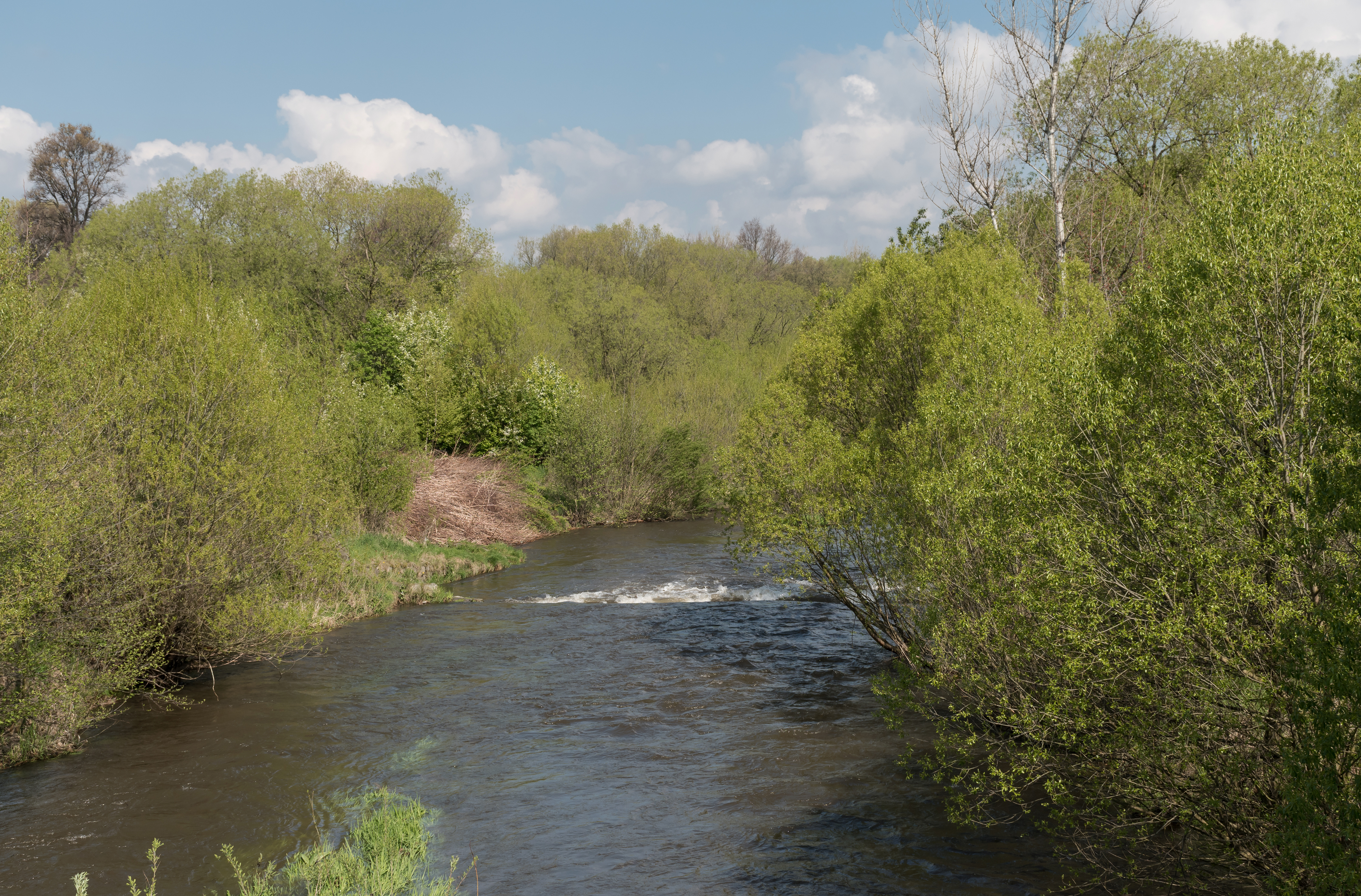 Biała Lądecka in Krosnowice